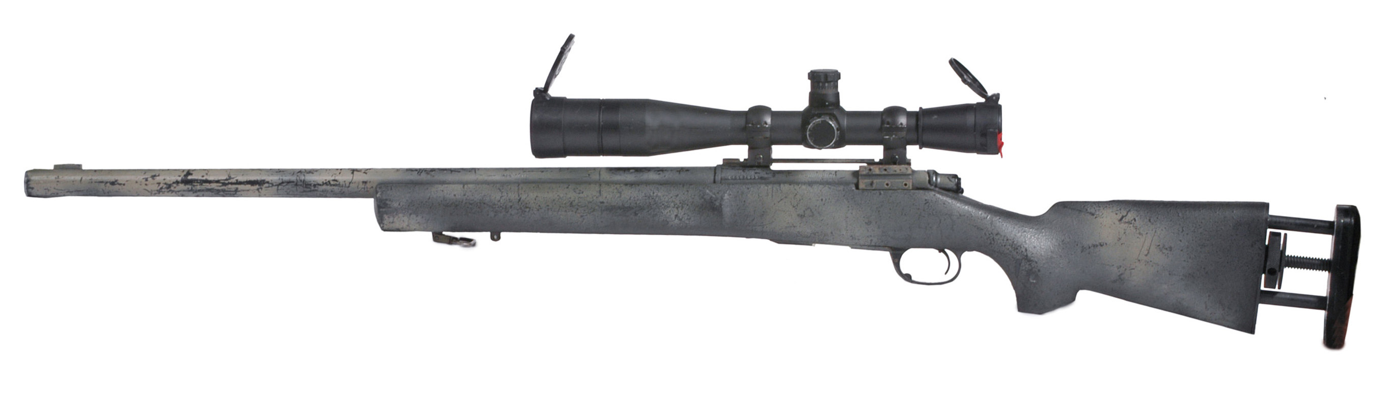 M24 SWS sniper rifle